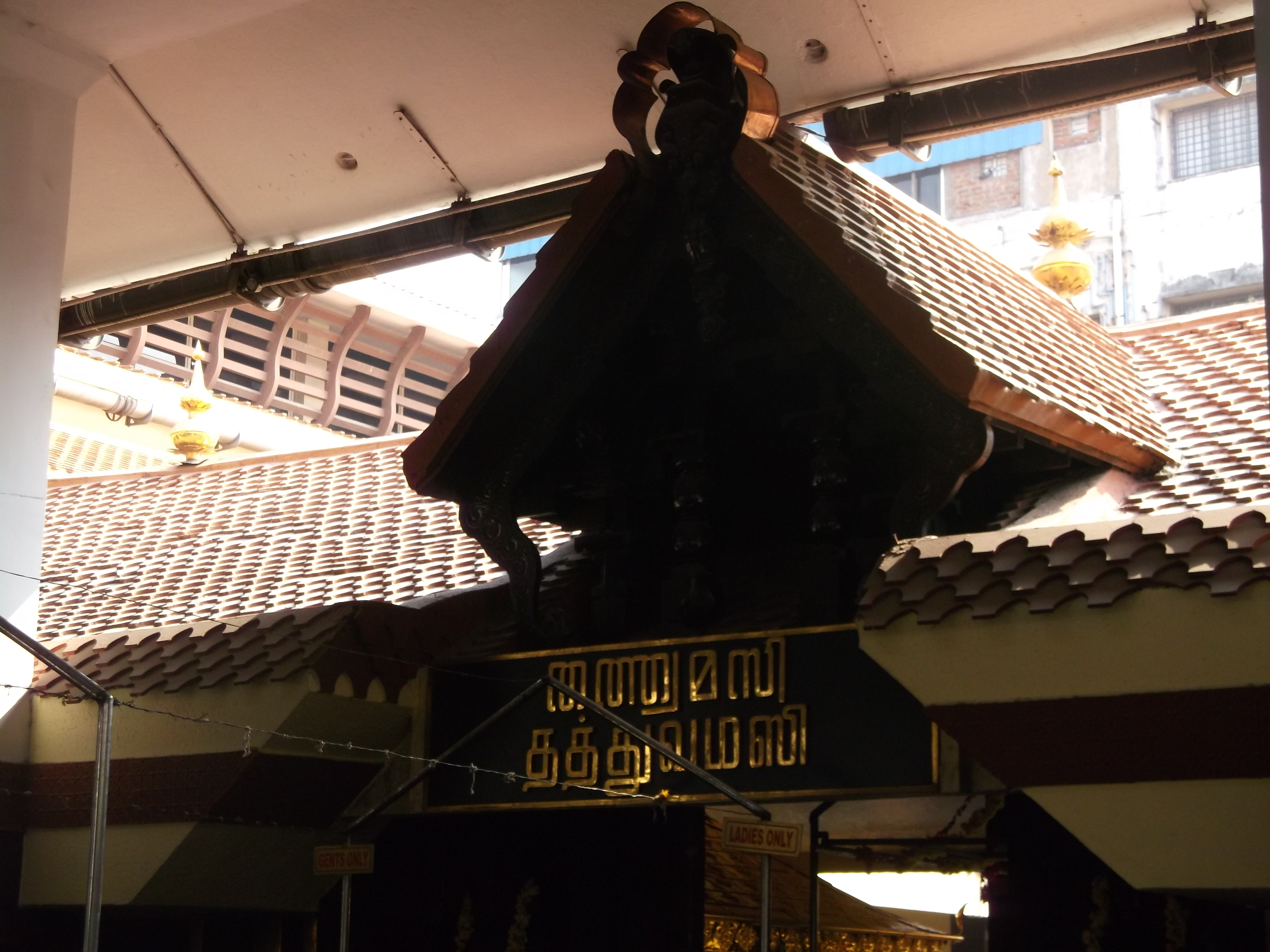 The "Thathwamasi" script at the entrance to the sanctum sanctorum of the Anna Nagar Ayyappan Koil, taken on 22 February 2015 at around 9:30 am.